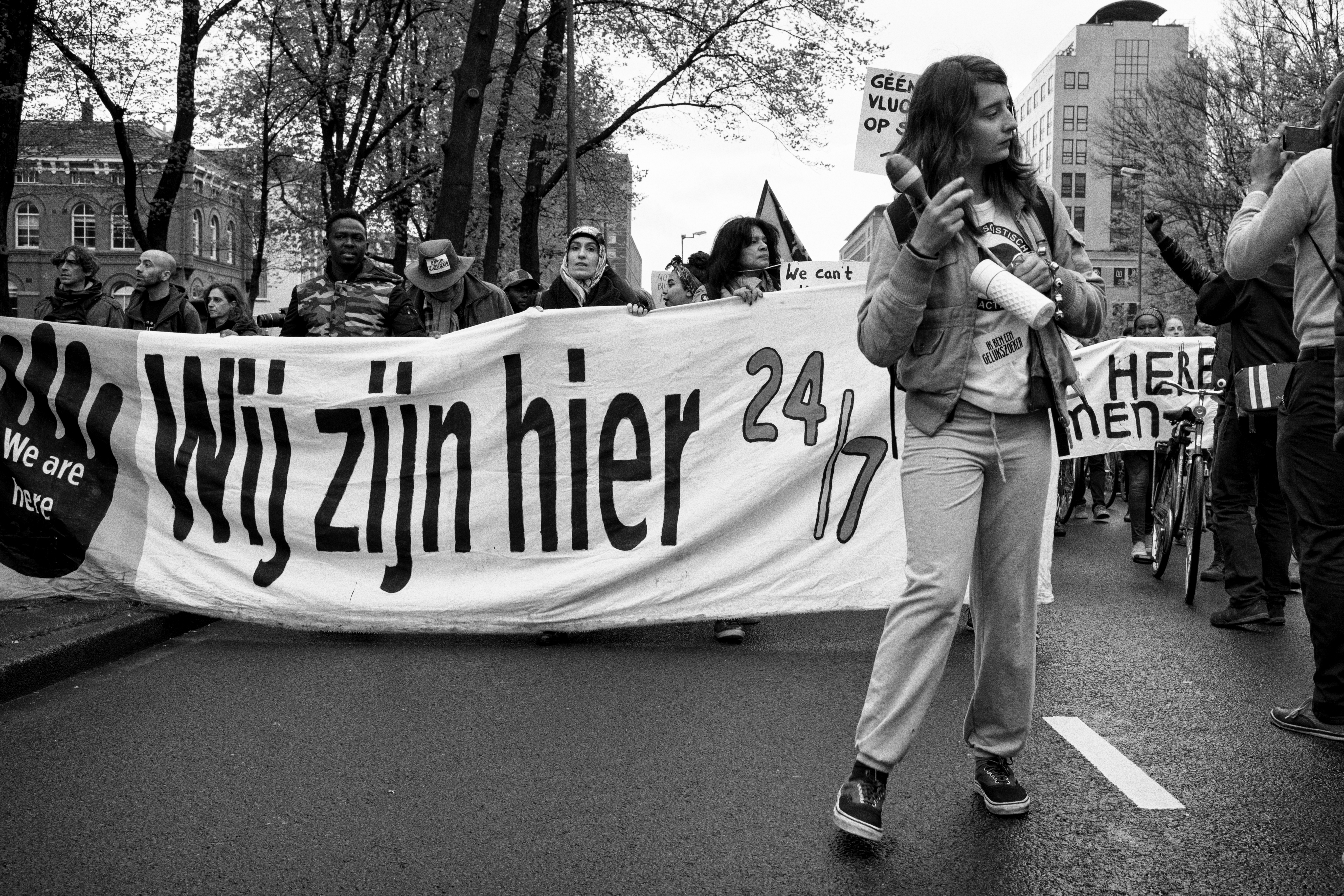 This photograph was taken by Guido van Nispen at a demonstration by We Are Here ( in Amsterdam on 28 April 2018. It was uploaded from Flickr.